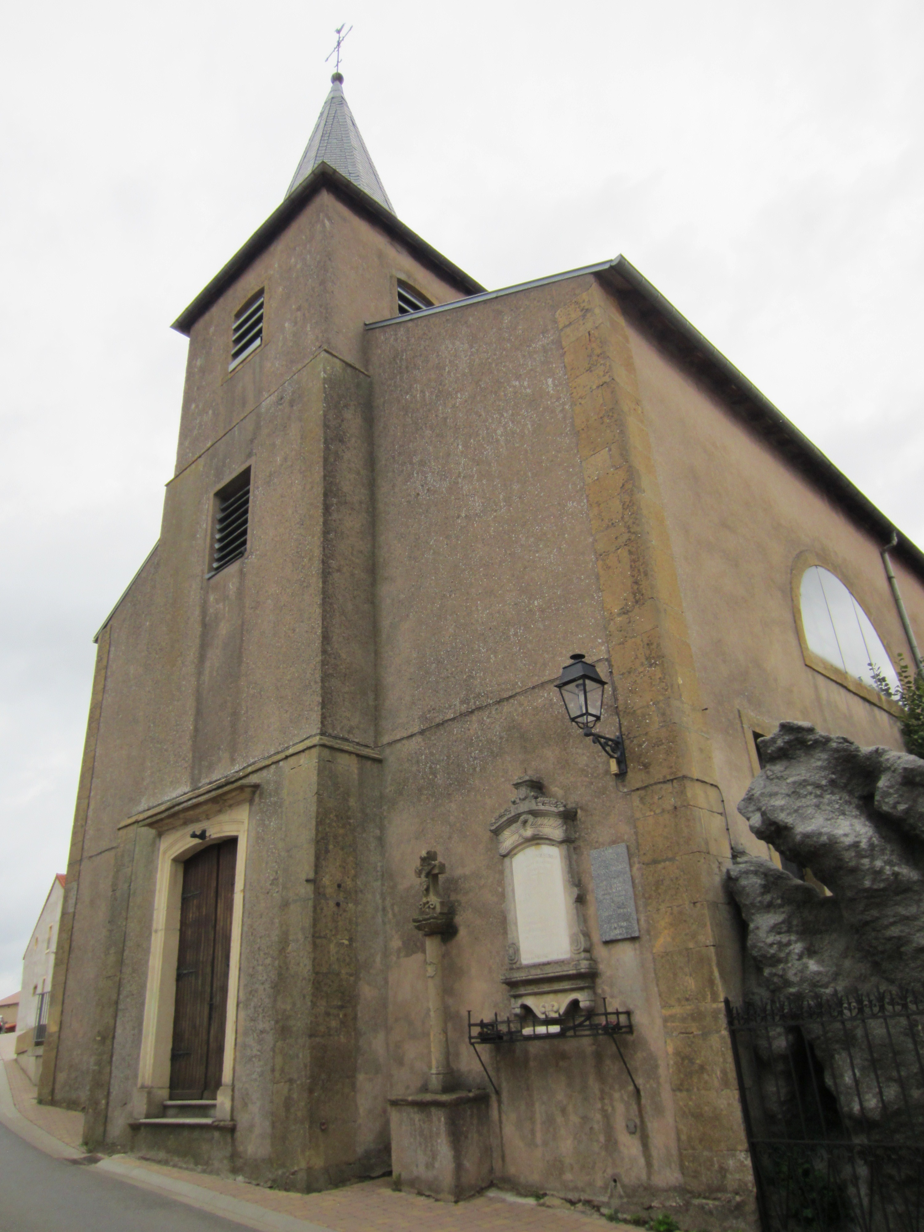 Description eglise saint michel Volstroff Date8 September 2011Sourcemon appareil photoAuthorAimelaimePermission(Reusing this file) eglise saint michel Volstroff